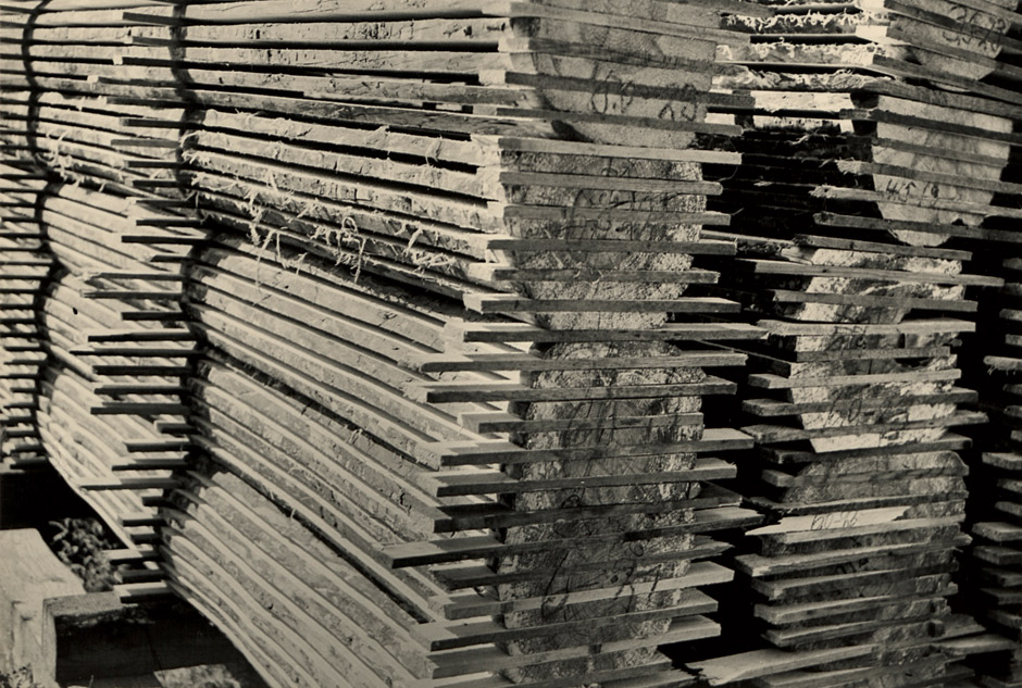 "Holzstapel" (Stacked wood). Vintage ferrotyped gelatin silver print on cream-colored paper. 15,7 x 23,3 cm. Photographer's Foto H. Koch Halle/S. stamp on the verso.